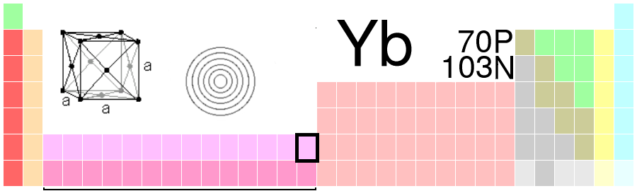 Authors: Daniel Mayer (User:Maveric149) and/or Arnaud Gaillard (Utilisateur:Greatpatton) This image was copied from . The original description was: from Image:Yb-TableImage.png source